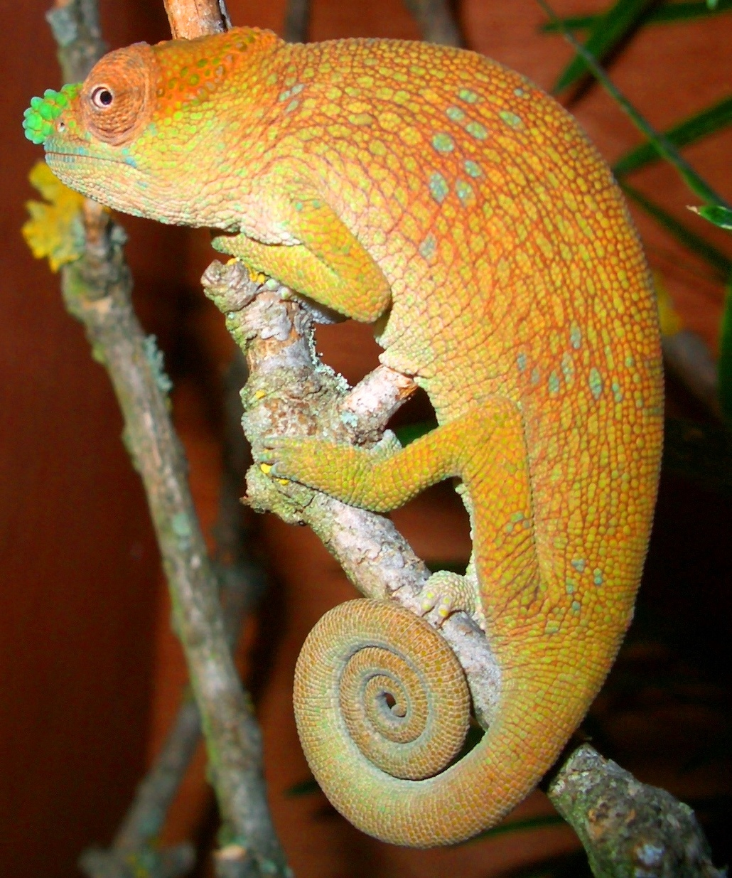 Kinyongia tenuis female with furled tail